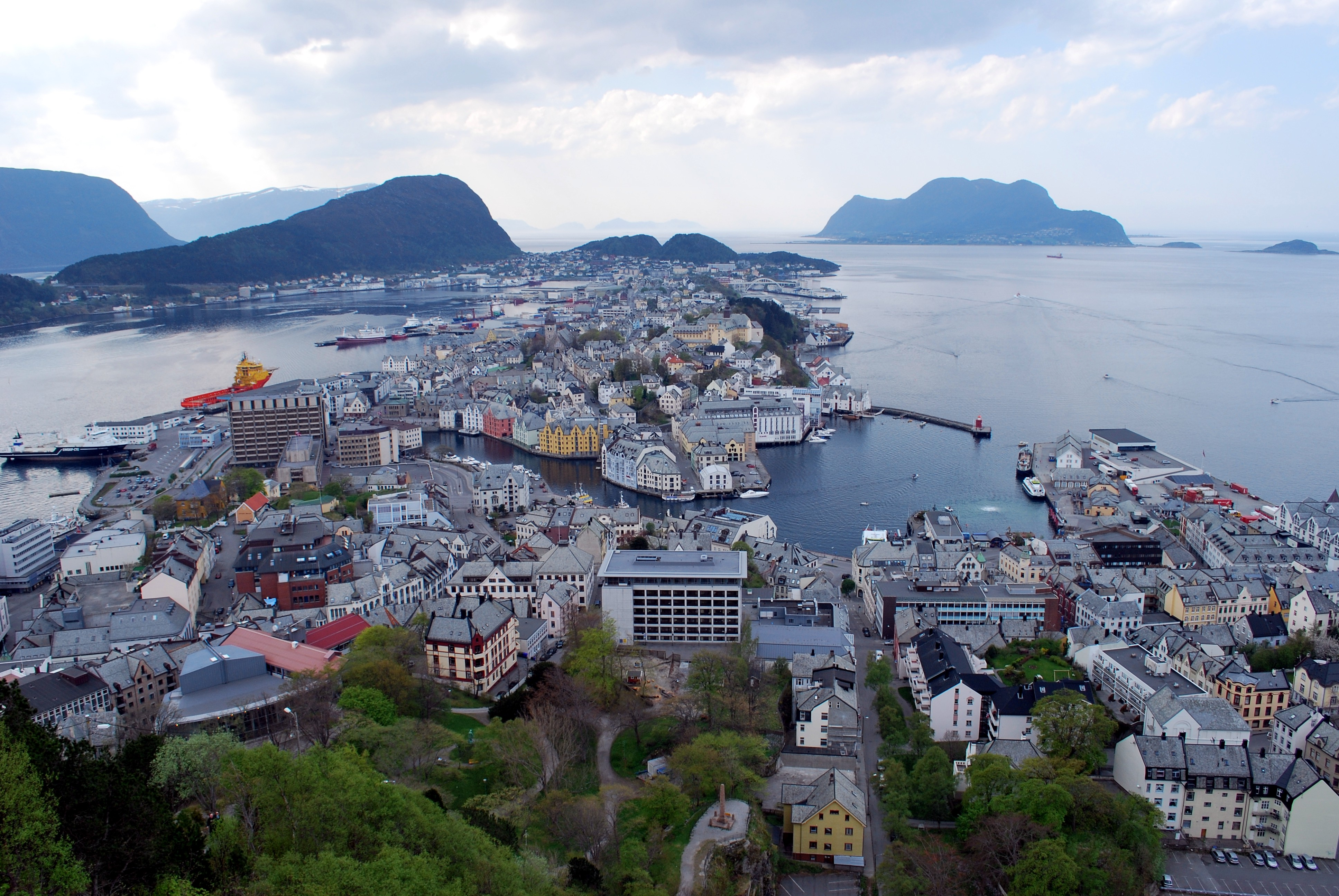 View of Ålesund, Norway.